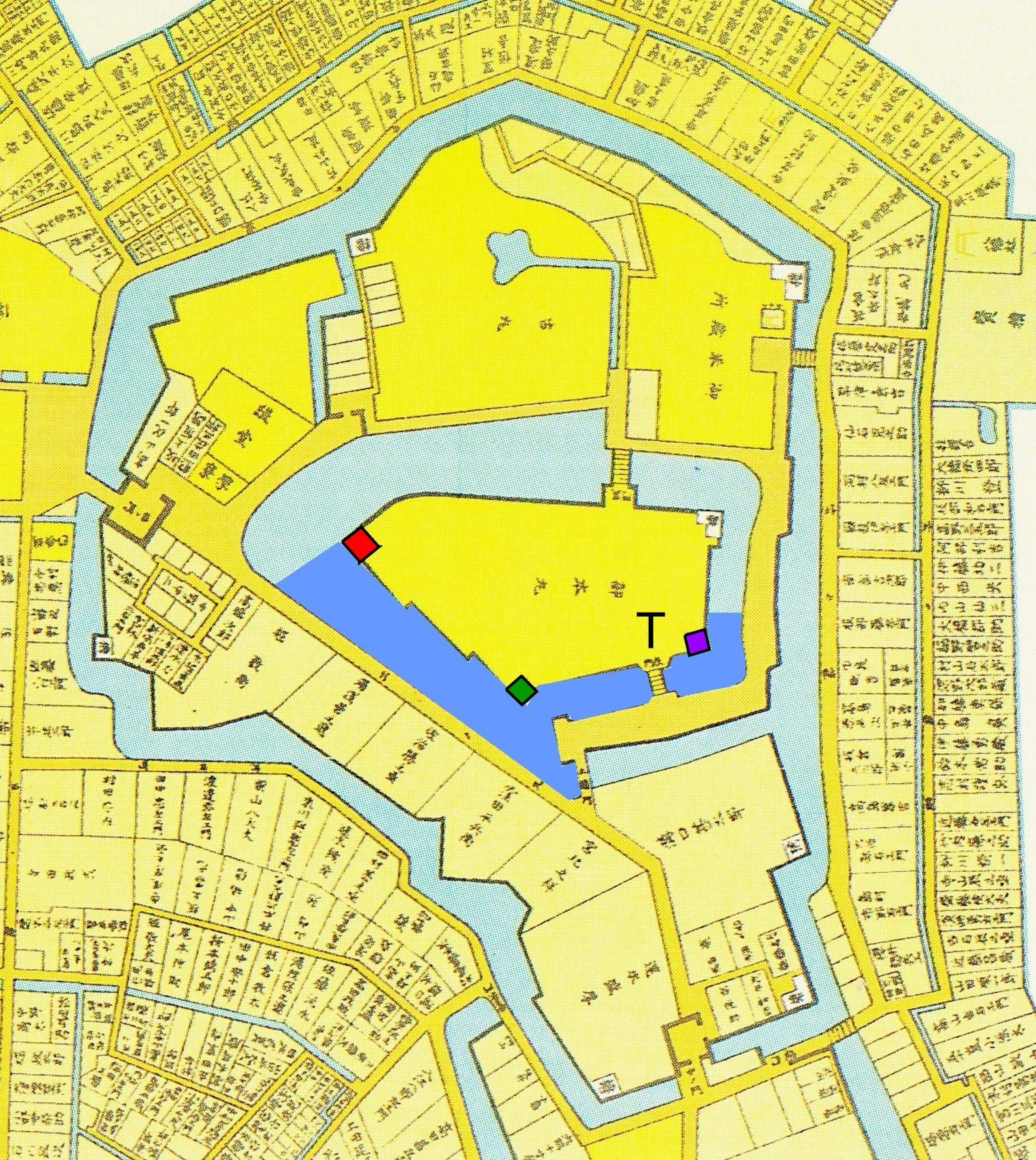 Shibata castle layout with remaining moat and towers marked